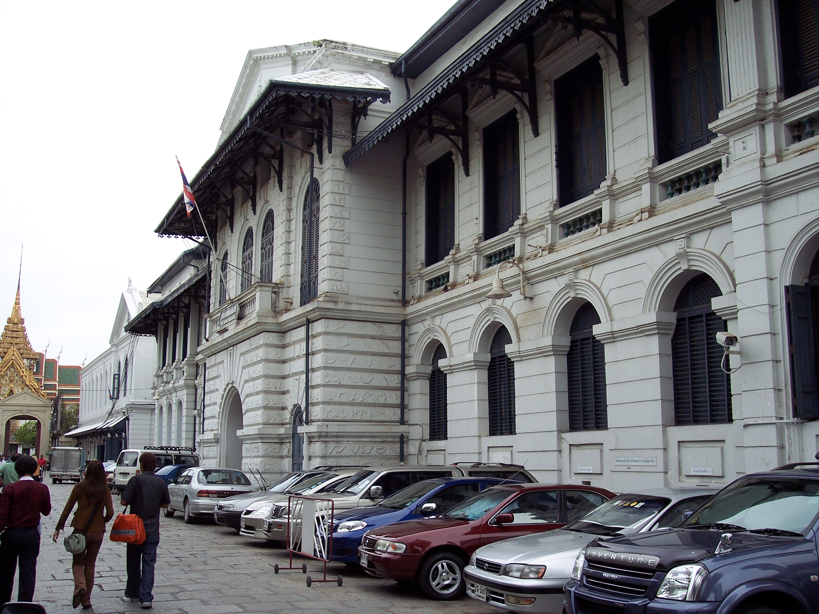 The former Royal Institute building, in the Grand Palace Complex, Na Phra Lan Road, Bangkok. Since relocated to a building in the Sanam Suea Pa complex on Sri Ayutthaya Road, Dusit District.